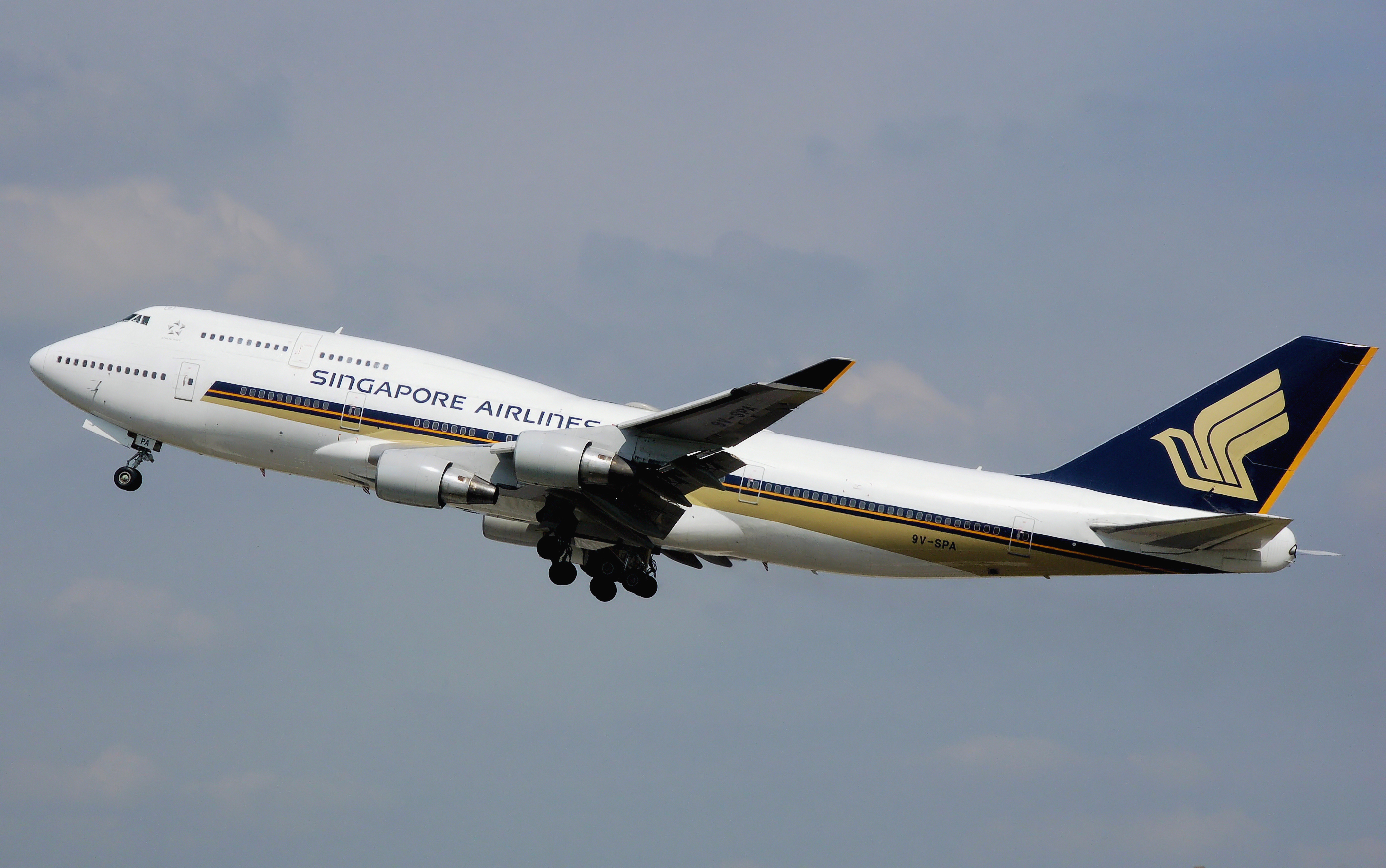 Singapore Airlines Boeing 747-400 (9V-SPA) landing at London Heathrow Airport.